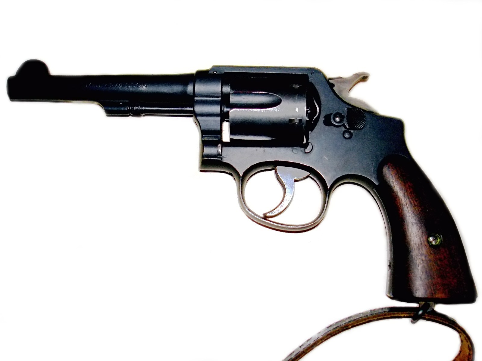 My Grandfather's Smith & Wesson Military & Police, .38 Special, made in USA in 1930s.